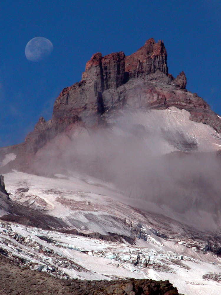 Little Tahoma from Summerland Camp on the Wonderland Trail.Little Tahoma